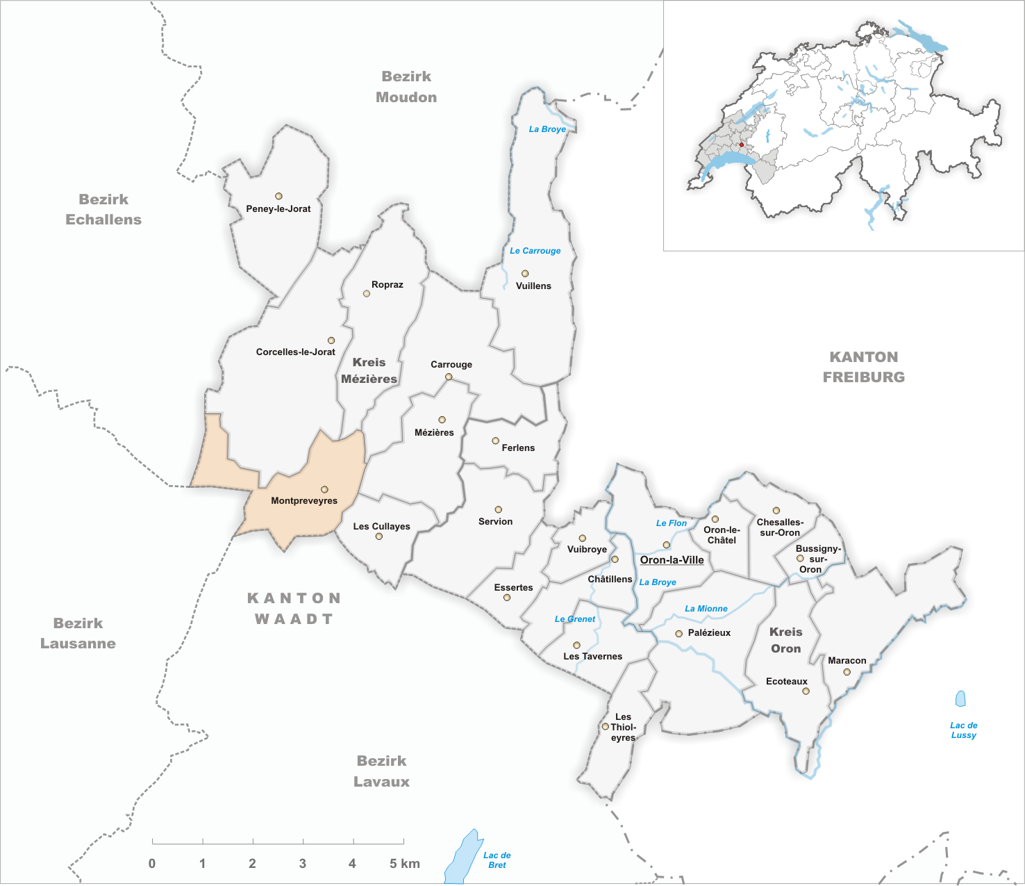 Municipality Montpreveyres